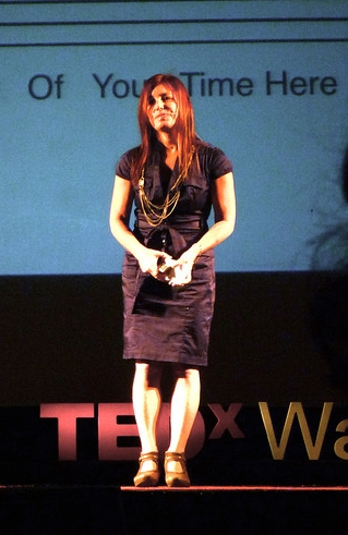 Amy Krouse Rostenthal at the TEDx Waterloo conference, February 25th 2010.